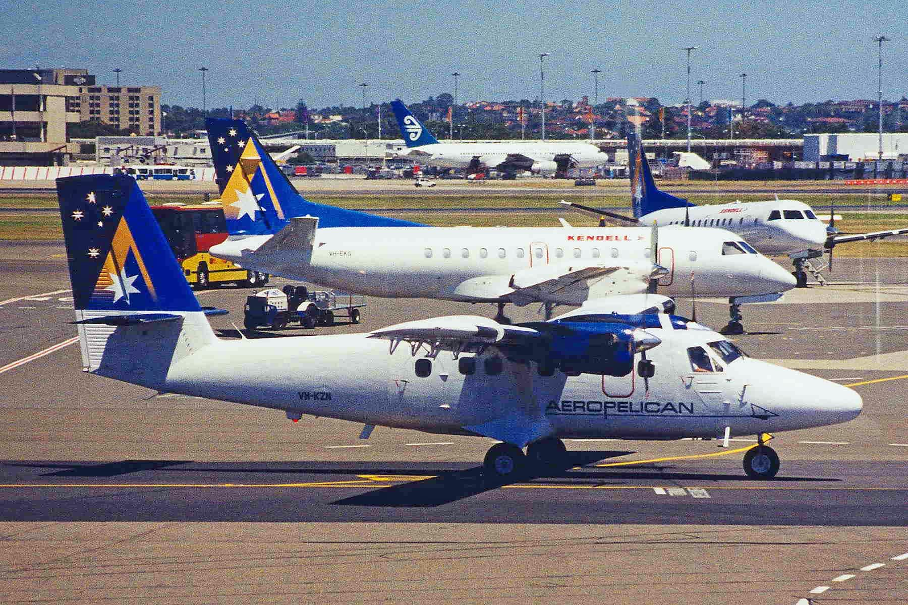 Operated by AeroPelican in conjunction with Ansett Australia